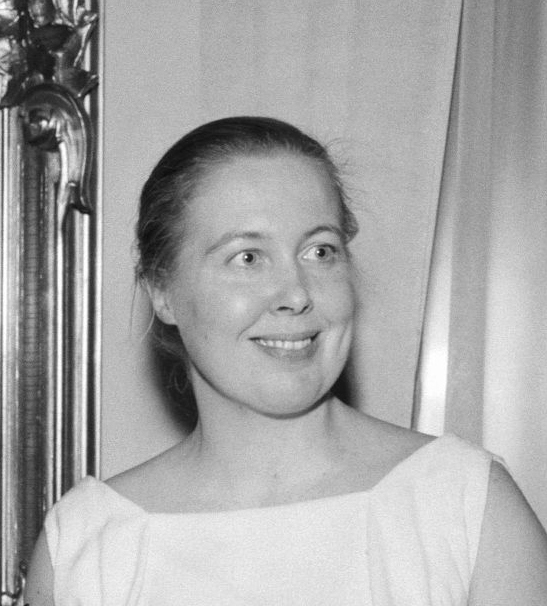 Photograph of the Finnish architect Elissa Aalto (1922–1994) at the Finnish Independence Day reception at the Presidential palace in Helsinki.